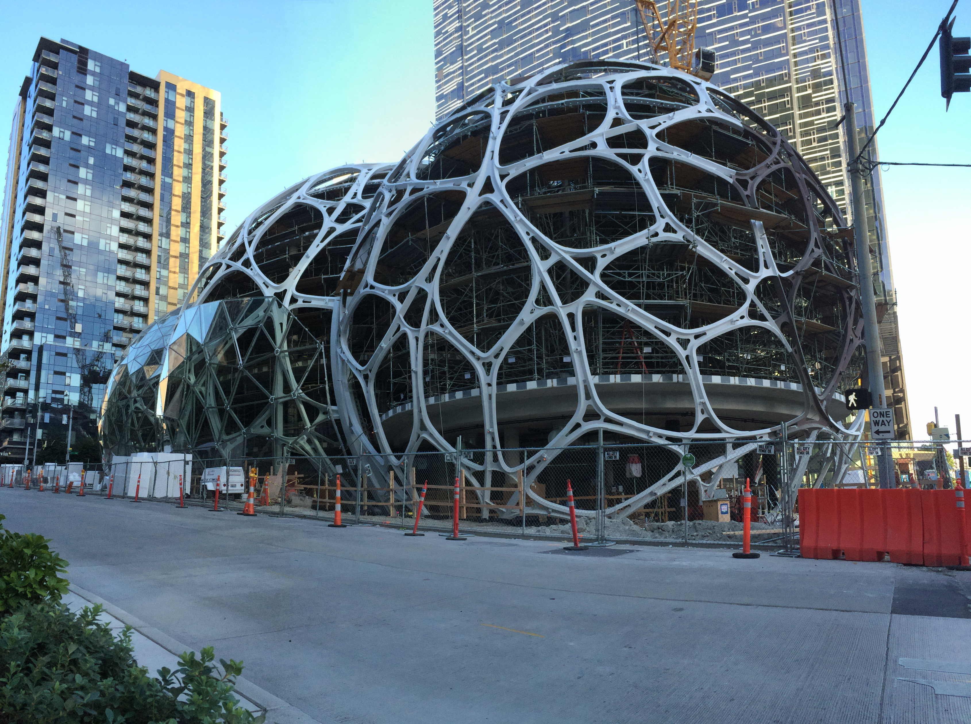 The Amazon Spheres, a tourist attraction on the Amazon headquarters campus in Seattle, seen during structural erection in August 2016.